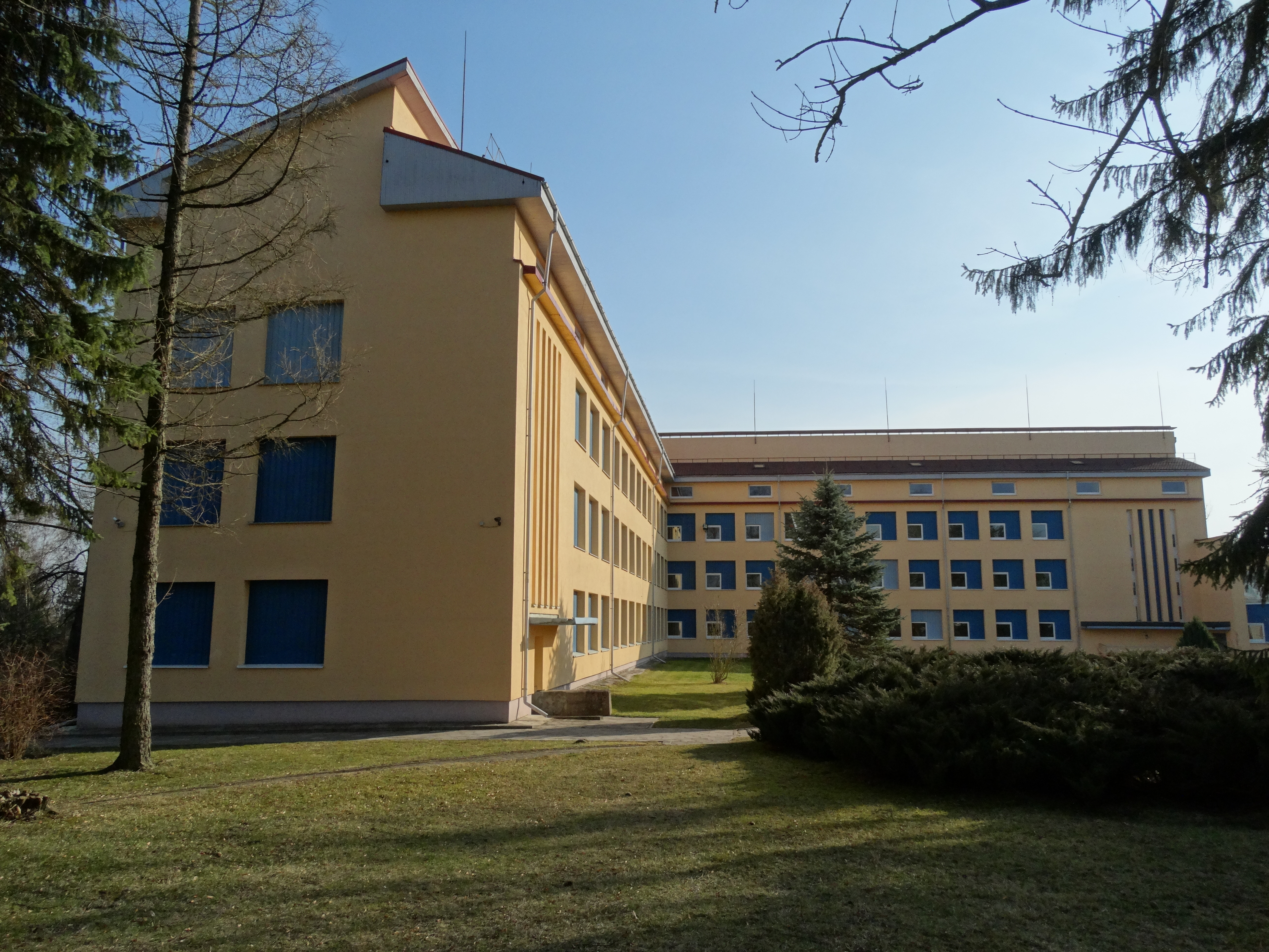 Gymnasium, Raguva, Panevėžys district, Lithuania